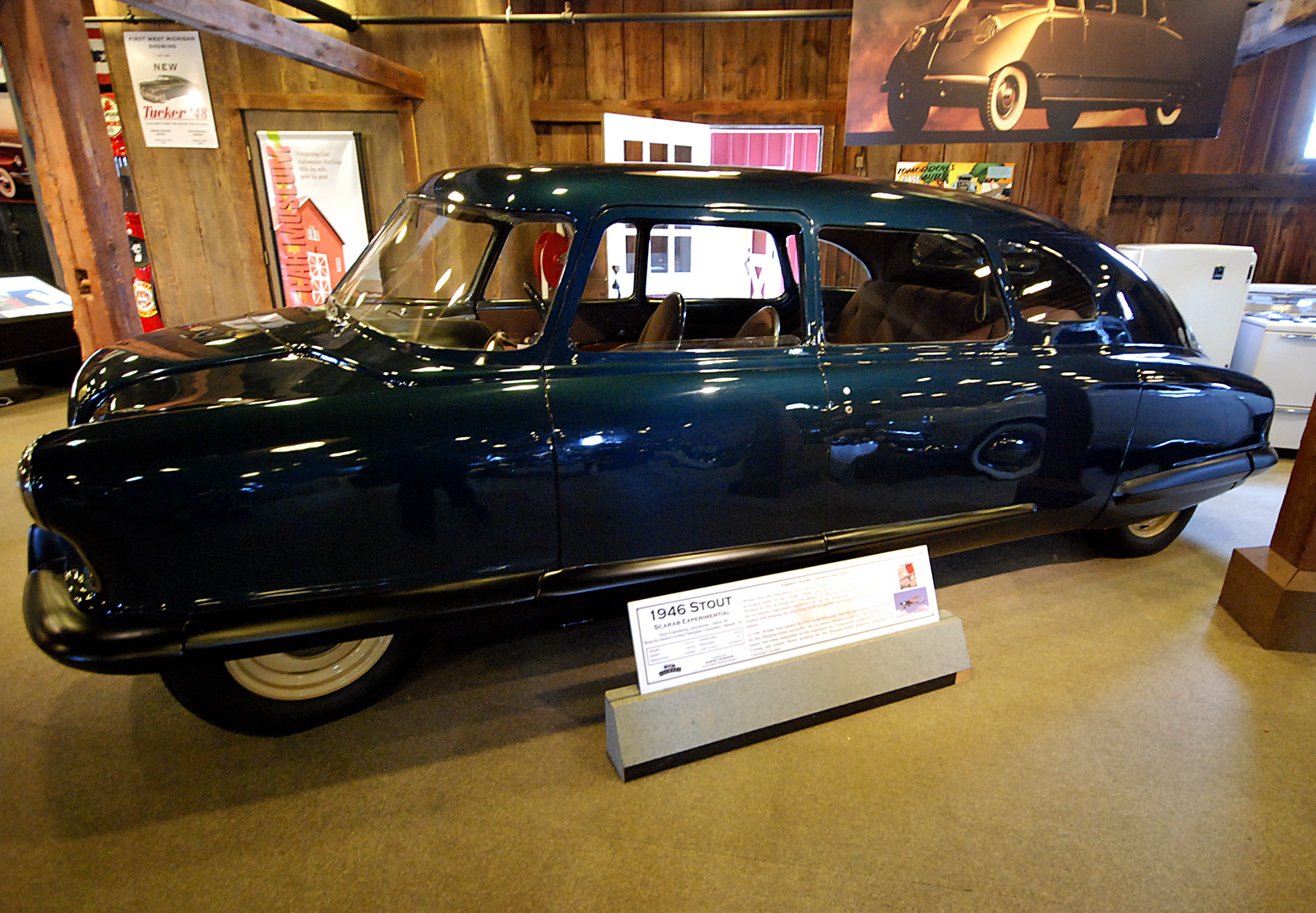 A 1946 Stout Scarab at the Gilmore Car Museum in Hickory Corners. One of the oddest cars I've ever seen.